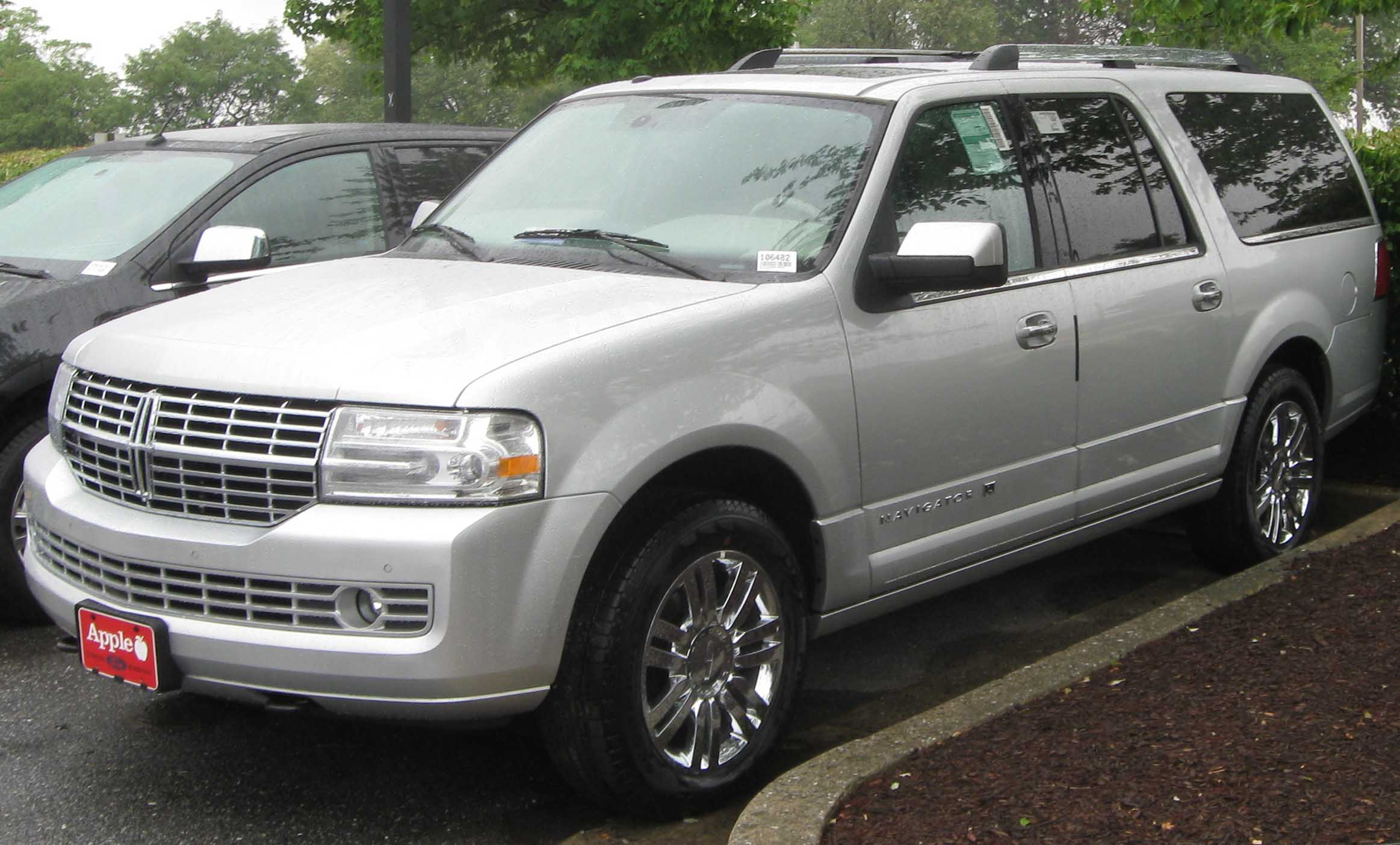 2010 Lincoln Navigator photographed in Columbia, Maryland, USA.